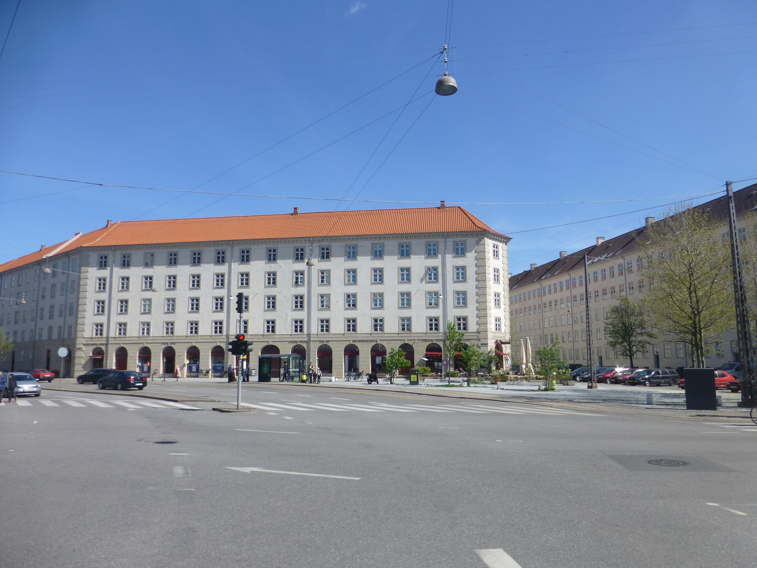 The square Borups Plads in Nørrebro in Copenhagen.